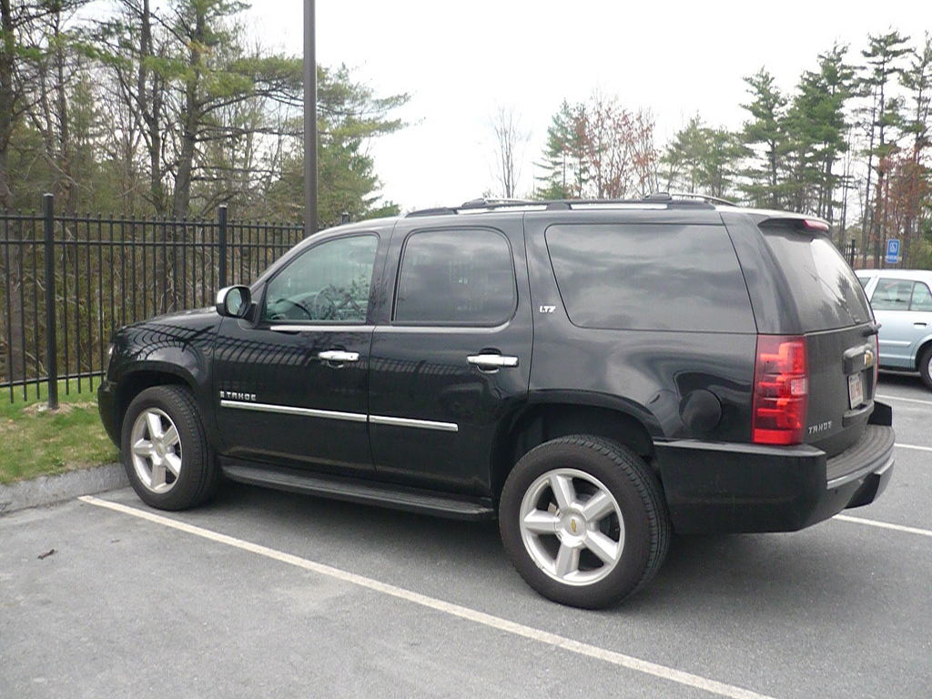 I don't care that it guzzles gas, I still think this is a cool truck.